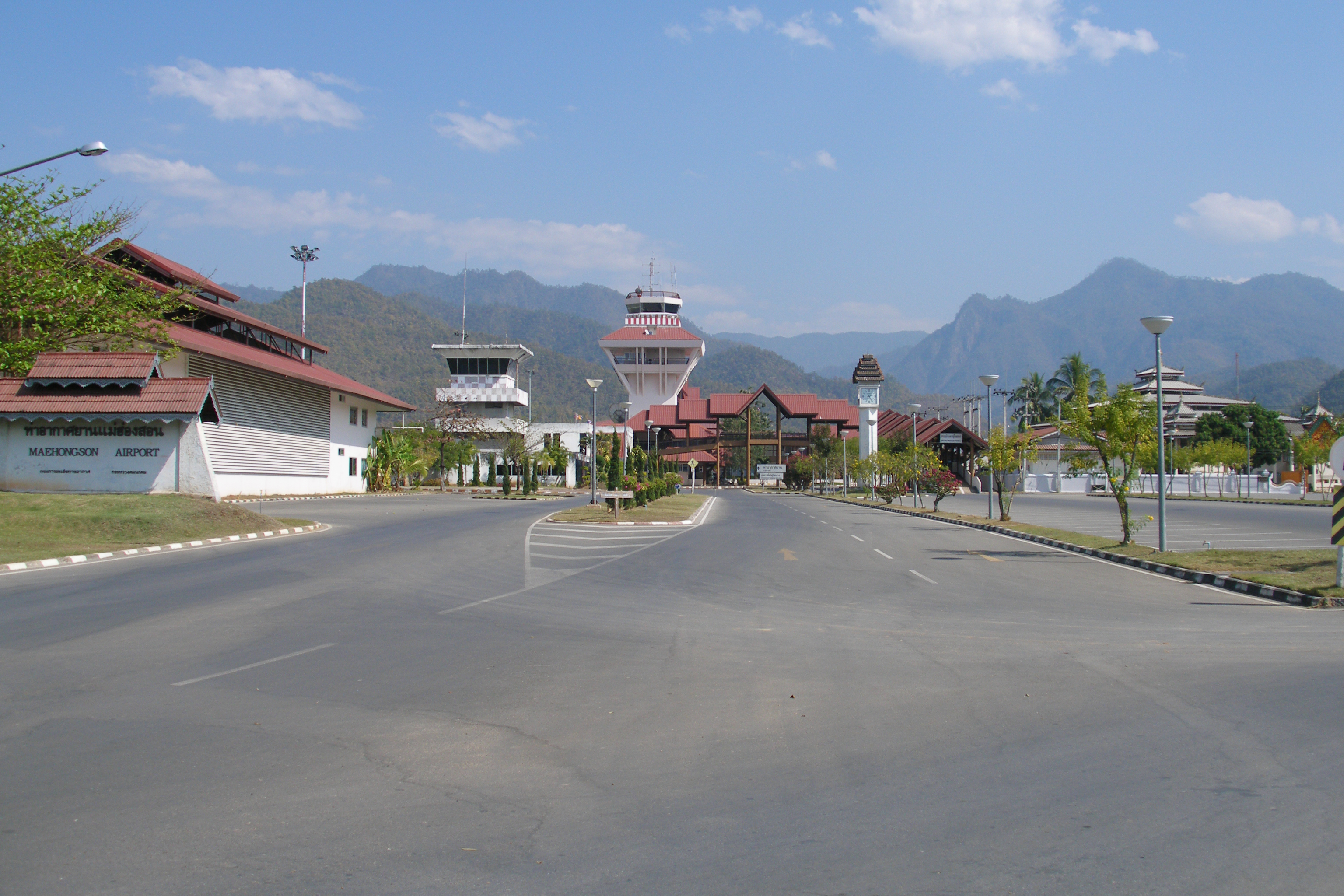 Mae Hong Son Airport Services